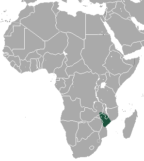 Dusky Elephant Shrew (Elephantulus fuscus) range